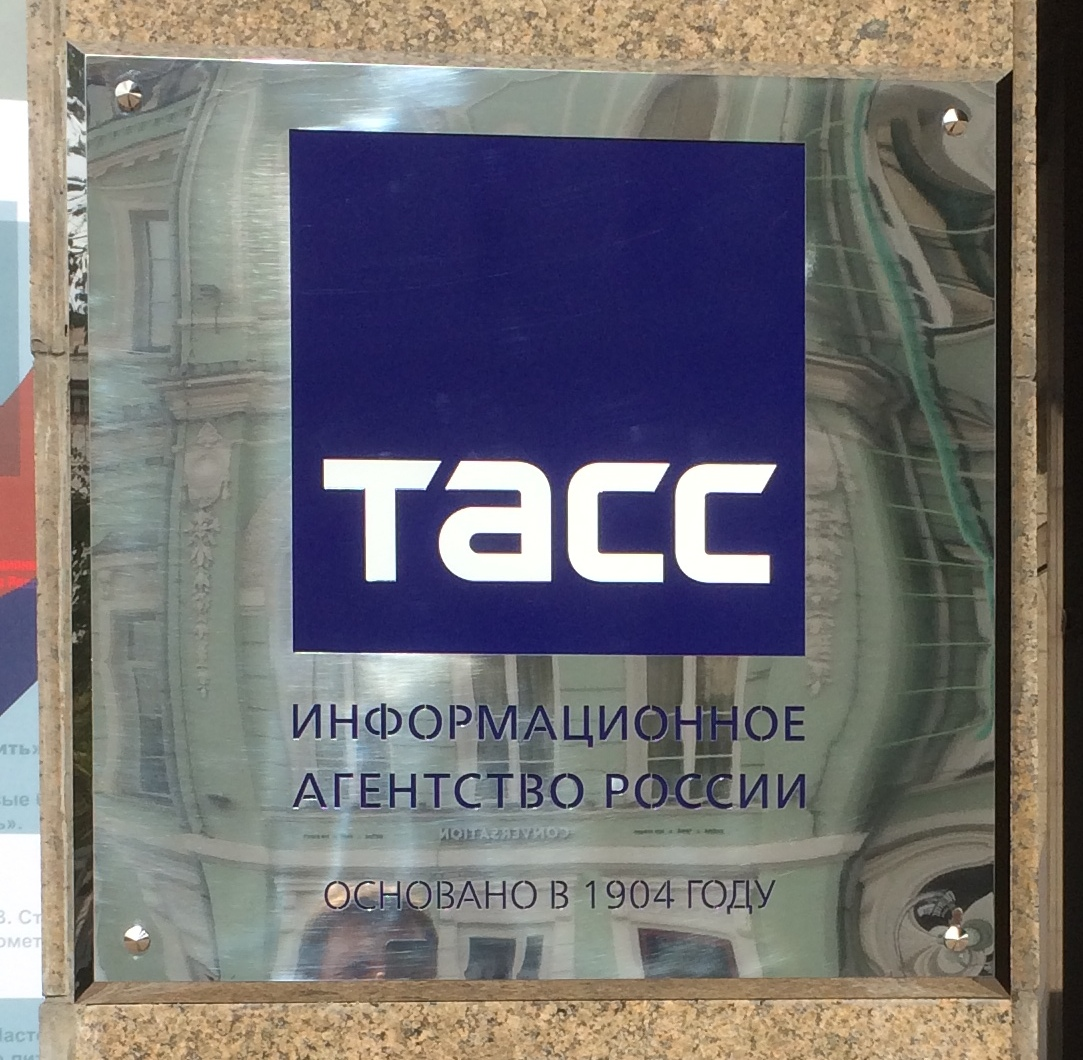 Entrance table at TASS headquarters